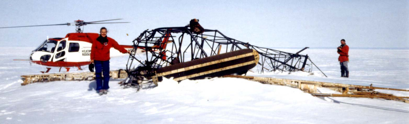 American geologist Christine Siddoway stands with the remains of First Byrd Expedition's Fokker aircraft, situated on Beryl Lake in the Rockefeller Mountains, Edward VII Peninsula, Antarctica. The aircraft was lost to a severe wind storm during the First Geological Sortie led by L.M. Gould. Pictured to left is Christine S. Siddoway. Visit took place during GANOVEX VII international expedition to Marie Byrd Land in 1993.